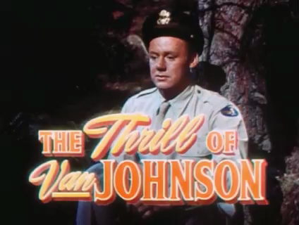 Van Johnson in Thrill of a Romance, by Richard Thorpe (1945)